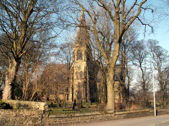 St Thomas Church Thurstonland A member church of the Upper Holme Valley team ministry. Pic taken from Marsh Hall Lane.